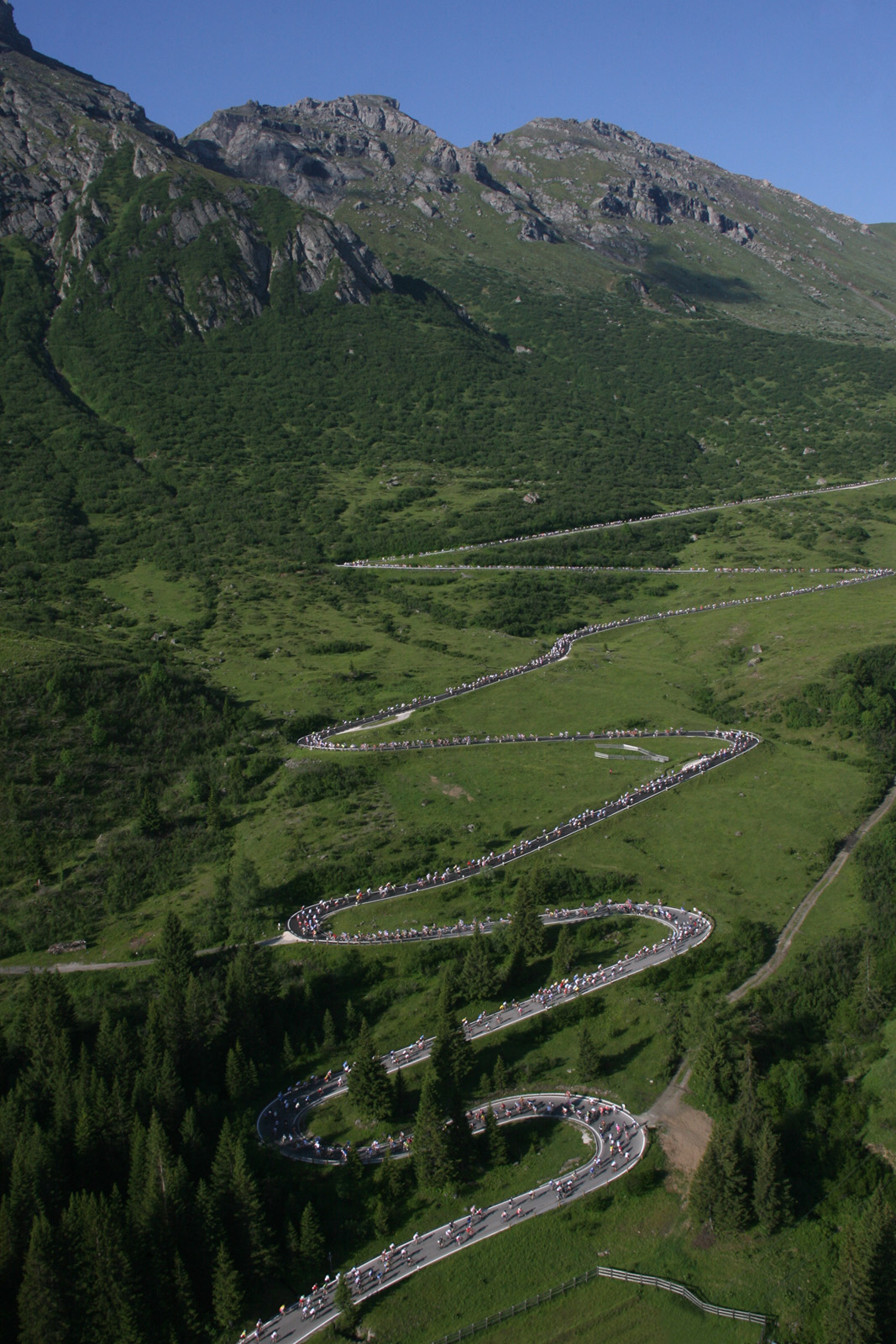 Maratona dles Dolomites 2008 edition ascent to Pordoi Pass - Picture provided by Maratona dles Dolomites Committee